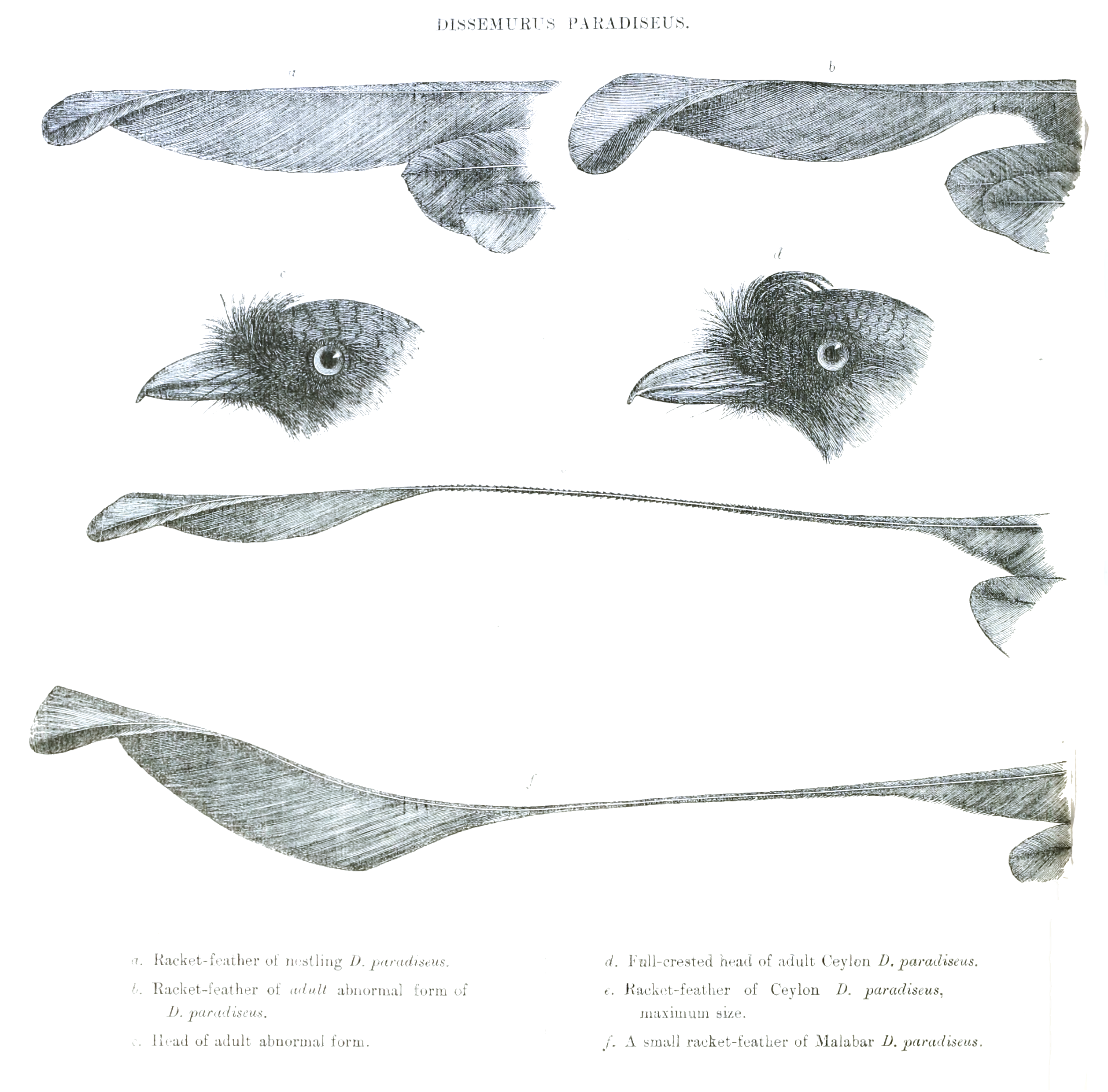 Tails of Dicrurus paradiseus and D. lophorinus